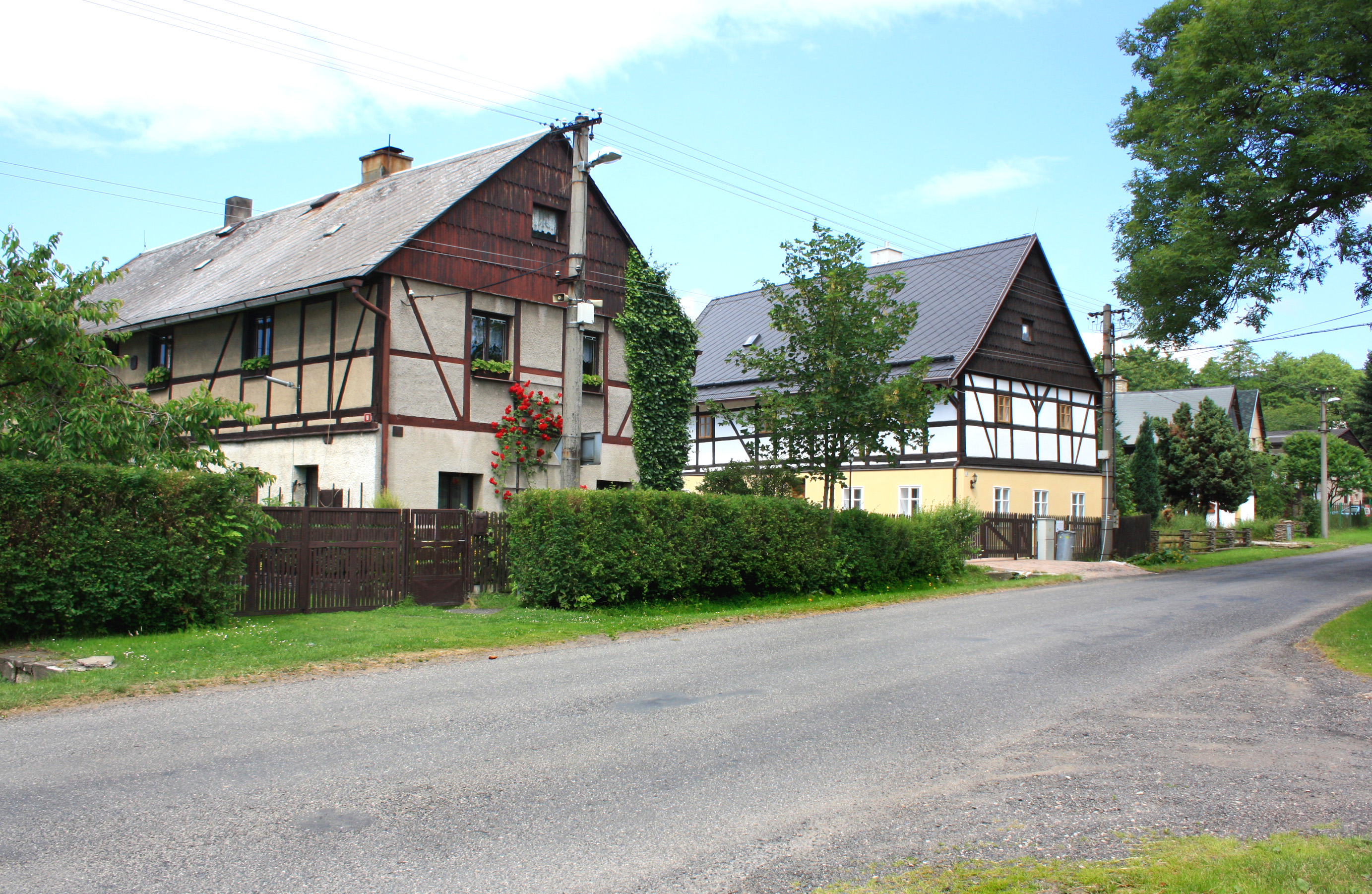 Protected homesteads in Boleboř, Czech Republic